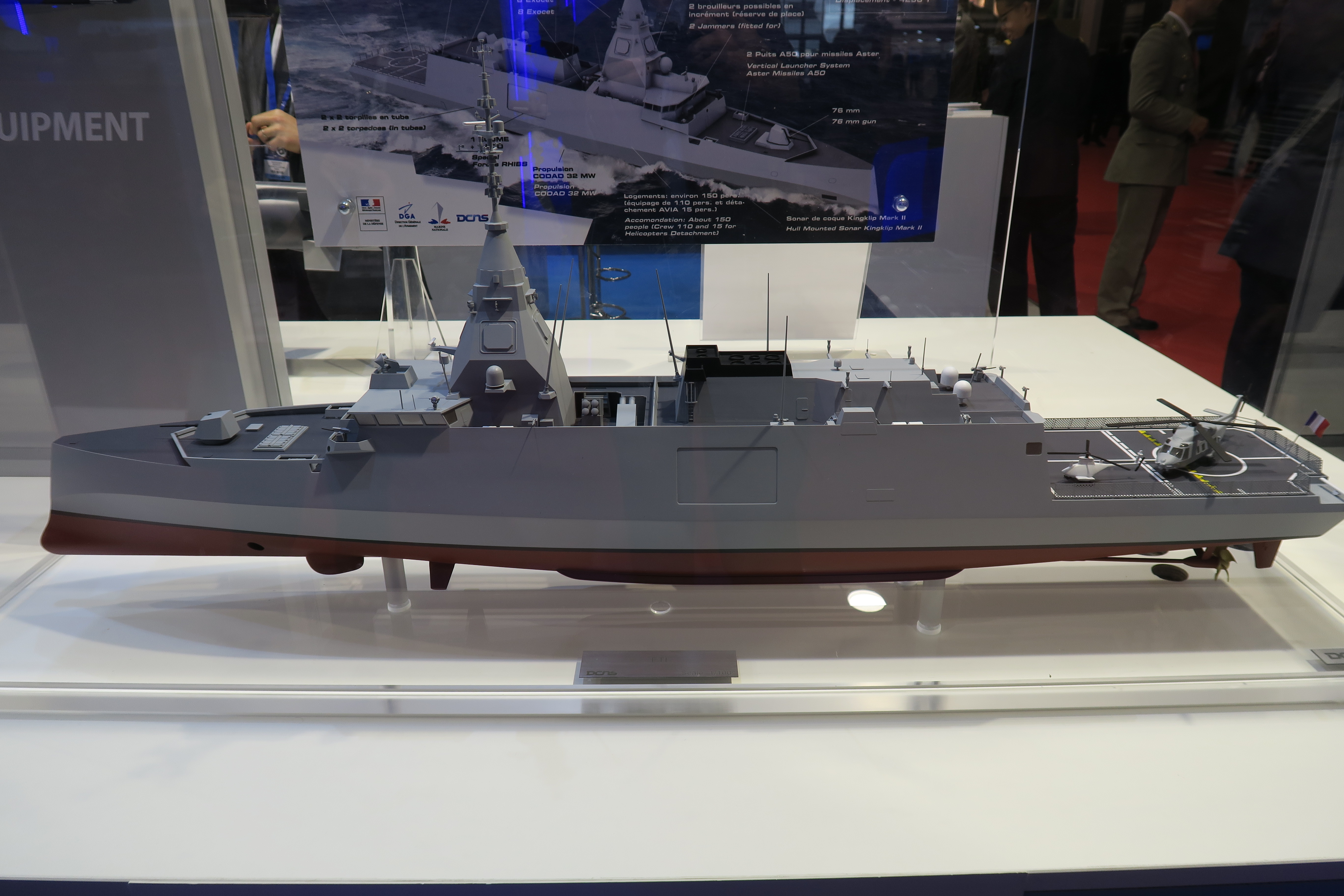 Model of the French FTI (Frégate de taille intermédiaire) concept exposed at the 2016 Euronaval exhibition.